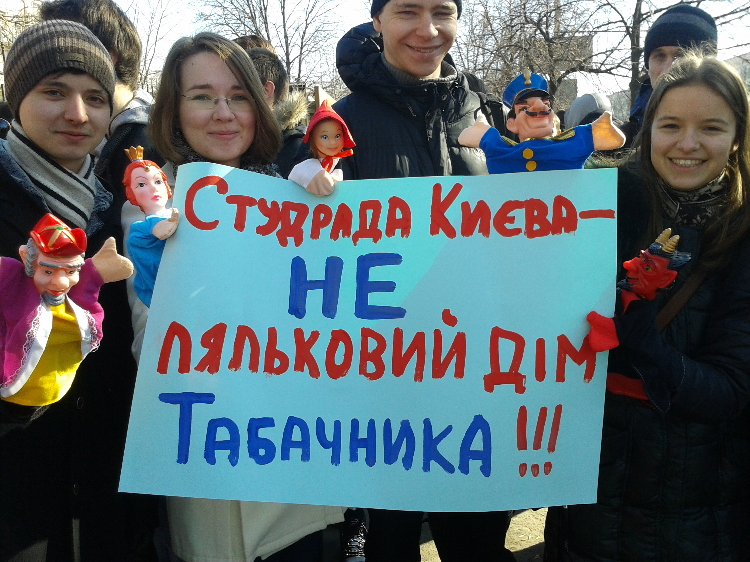 Action against attempts by the Ministry of Education and Science of Ukraine to establish control over Kyiv Student Council